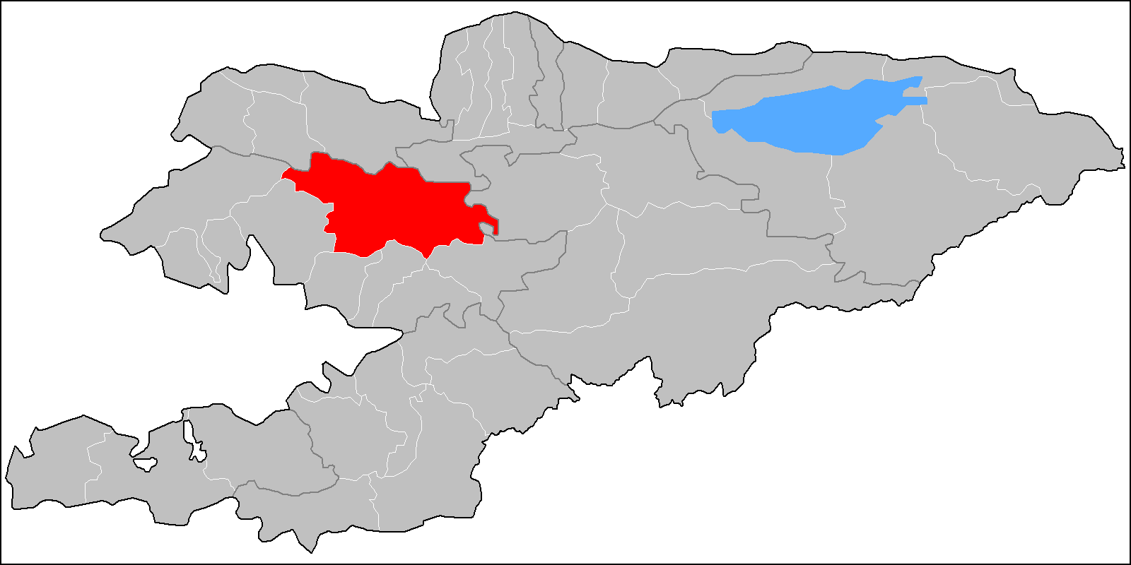 The location of the raion (district) of Toktogul in Kyrgyzstan. Based on Image:Kyrgyzstan raions.png